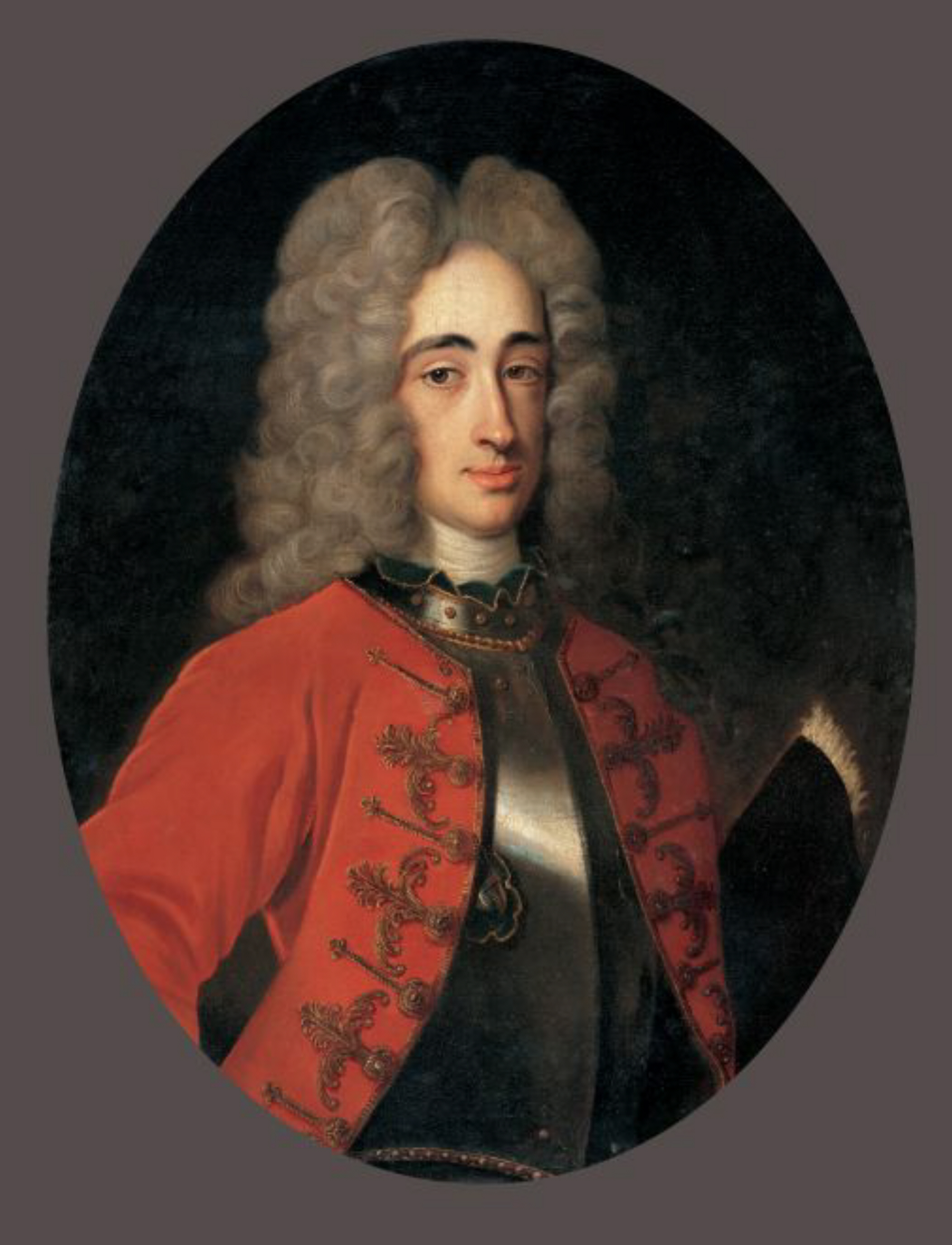 Josef Johann Adam, prince of Liechtenstein (1690-1732)